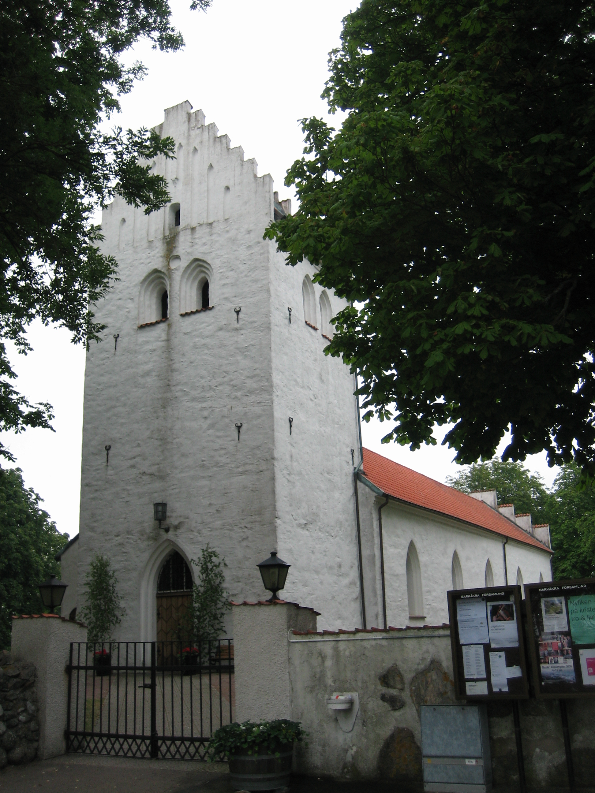 Barkåkra kyrka in Barkåkra, Ängelholms kommun, Sweden. Photo by the uploader.